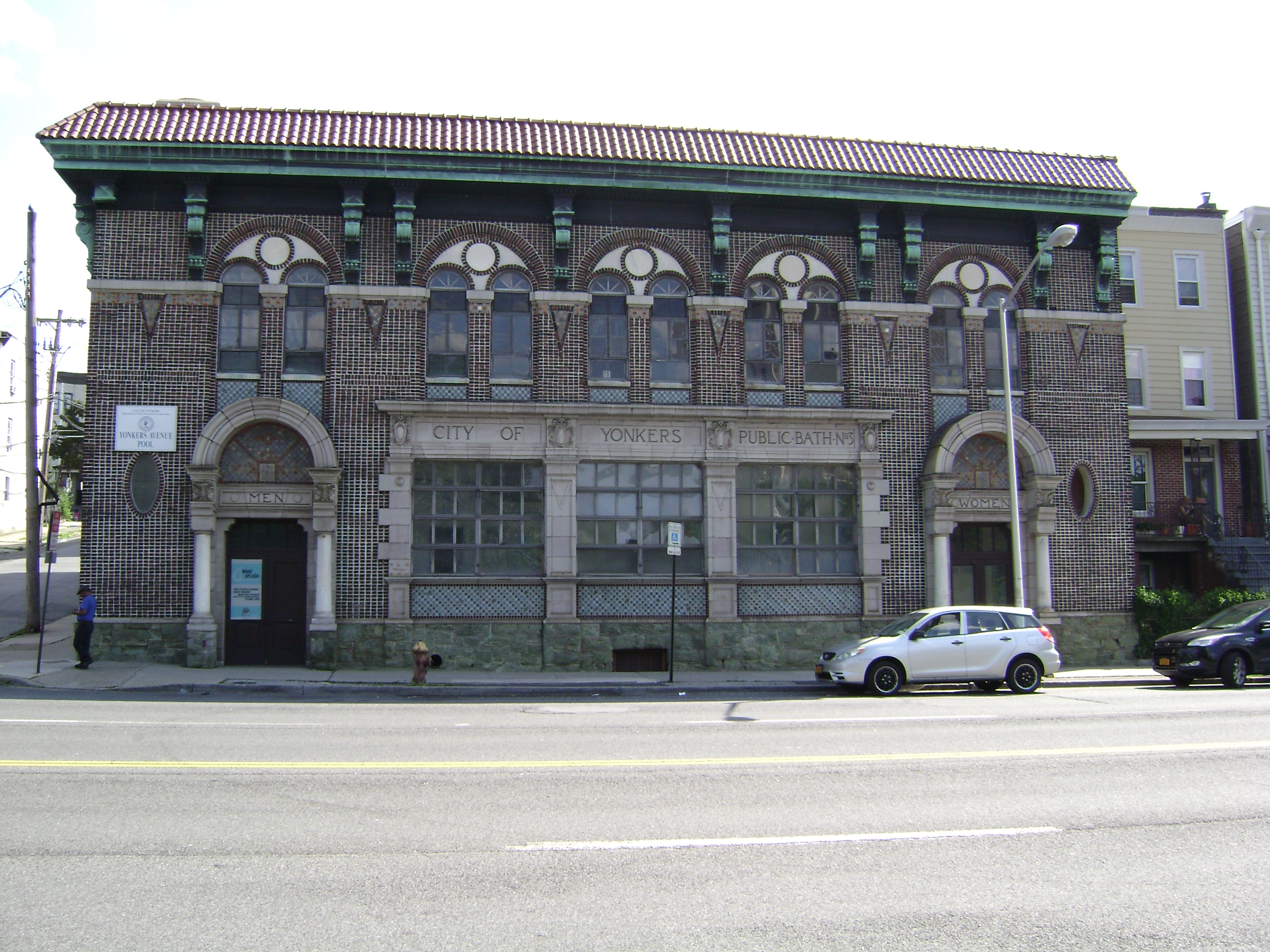 Looking across Yonkers Avenue at Public Bath House No. 3, 48 Yonkers Ave. Yonkers